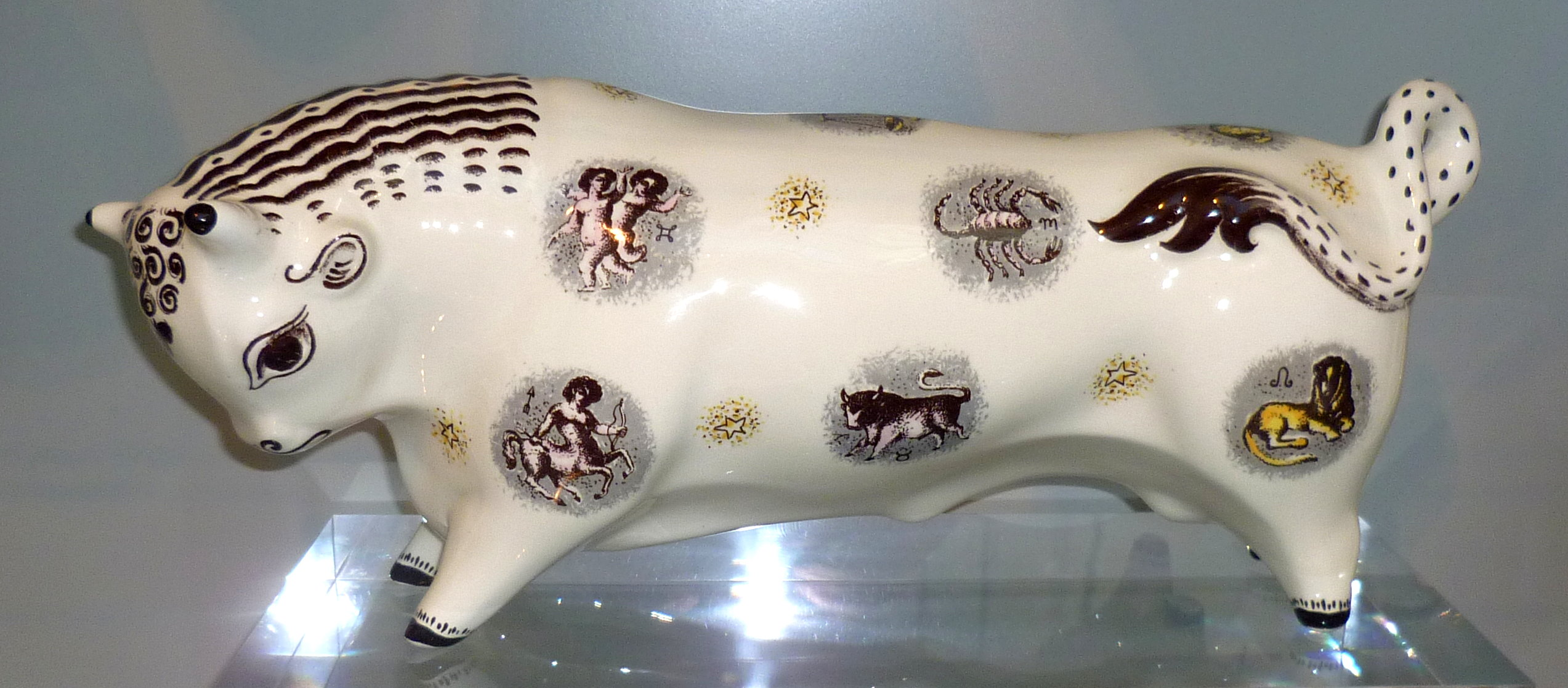 Taurus the Bull, modelled by Arnold Machin 1945. Produced by Josiah Wedgwood & Sons 1950. Earthenware, transfer printed.